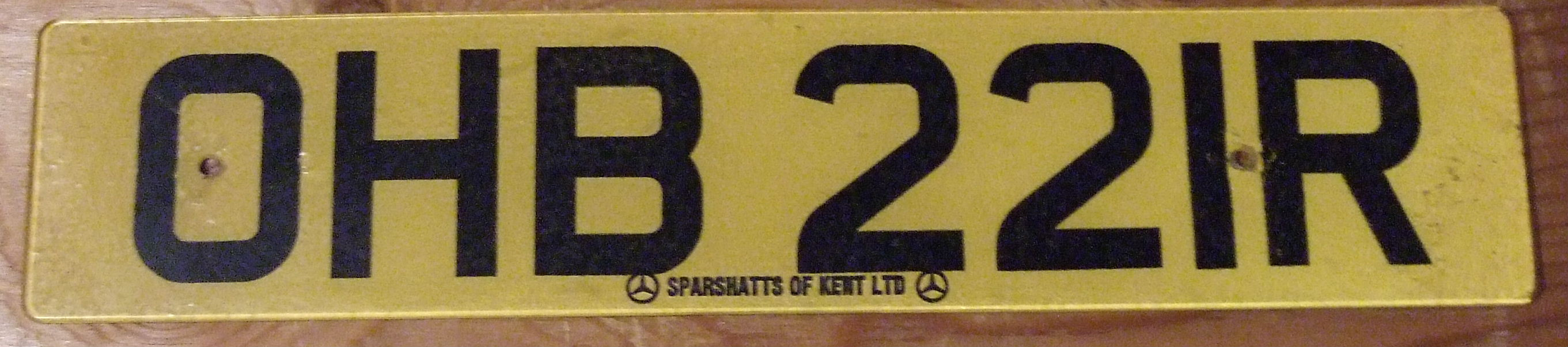 Wales UK 1976/77 yellow rear license plate